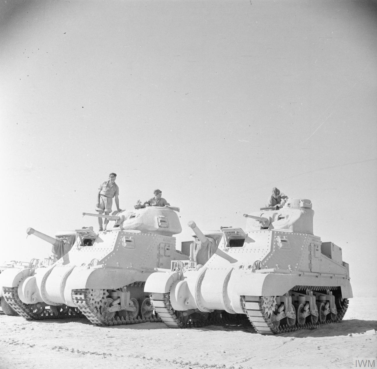 Grant and Lee tanks of 'C' Squadron, 4th (Queen's Own) Hussars, 2nd Armoured Brigade, El Alamein position, Egypt, 7 July 1942. Photographer: No 1 Army Film & Photographic Unit